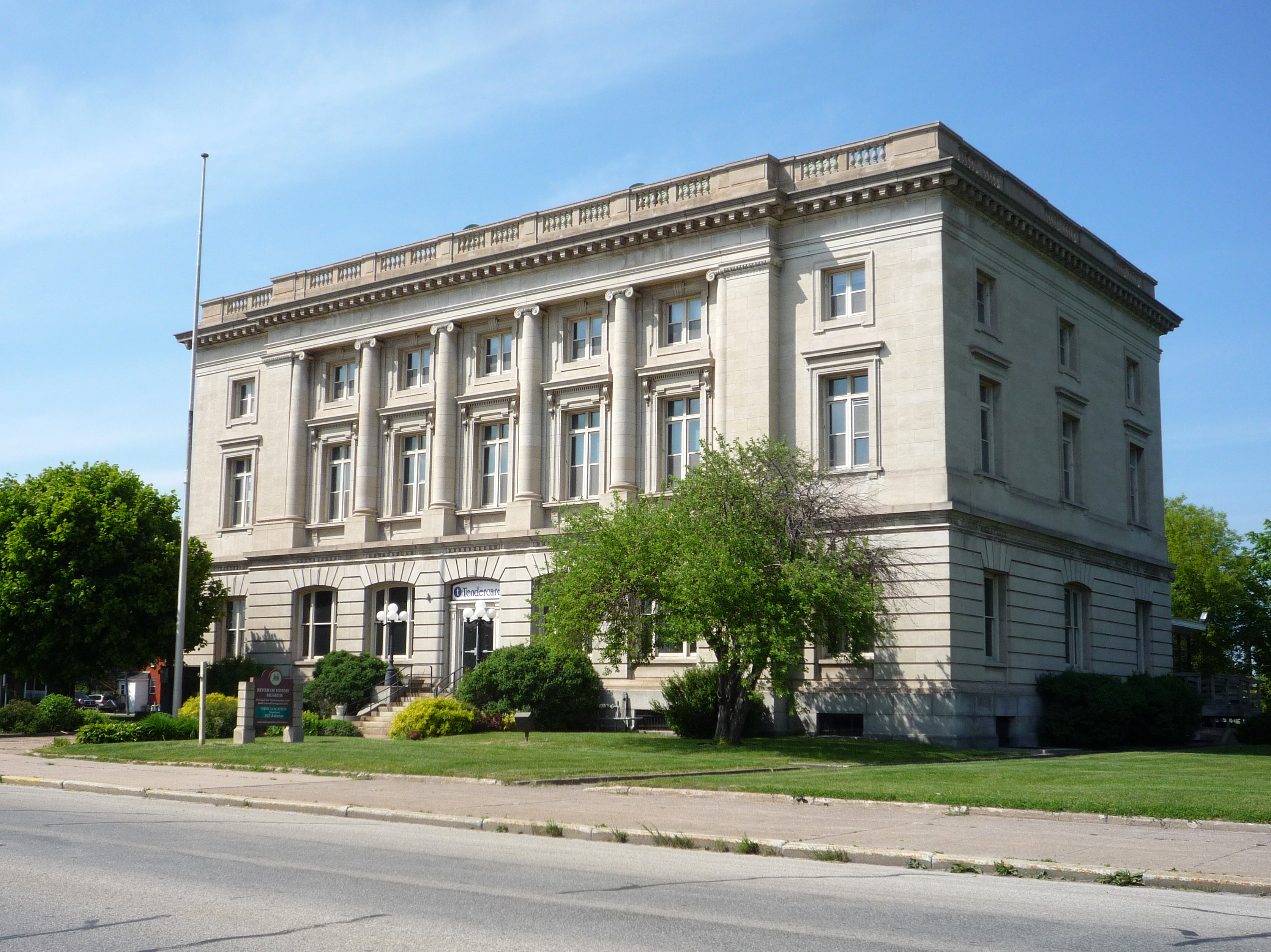 River of History Museum, located in the Old Federal Building, Sault Ste. Marie, Michigan, USA.